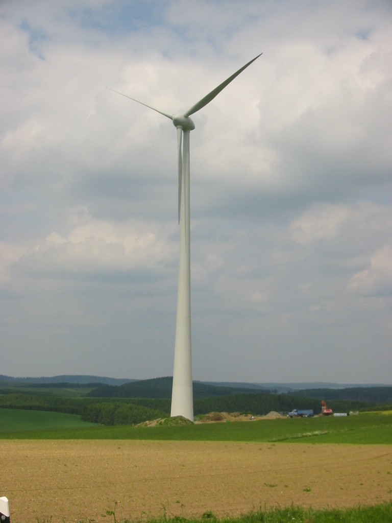 Wind turbine Enercon being built in Heinerscheid (2004) - Islek Region of Luxembourg